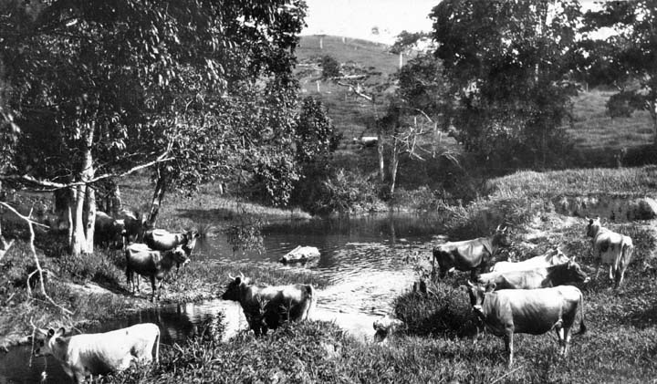 Jersey Cattle on the banks of Pinbarren Creek on Mr F O'Rourke's farm, Breffney, Pinbarren, Noosa Shire.